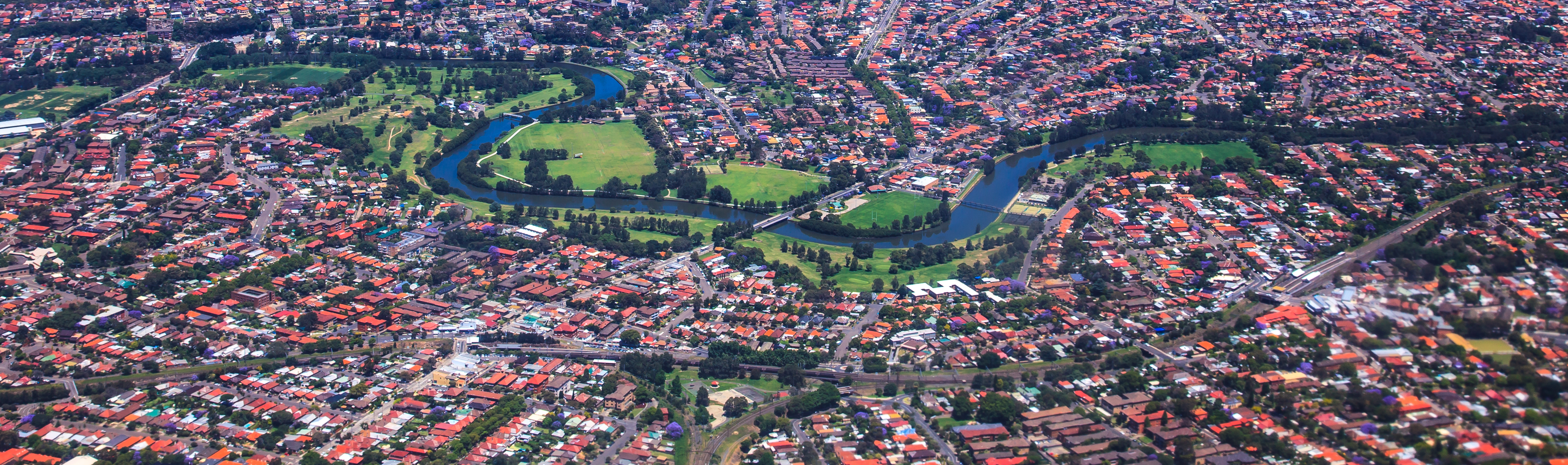 2nd leg, on this Air Canada plane...Sydney to Vancouver, BC...Sydney subburbs and beaches from the air